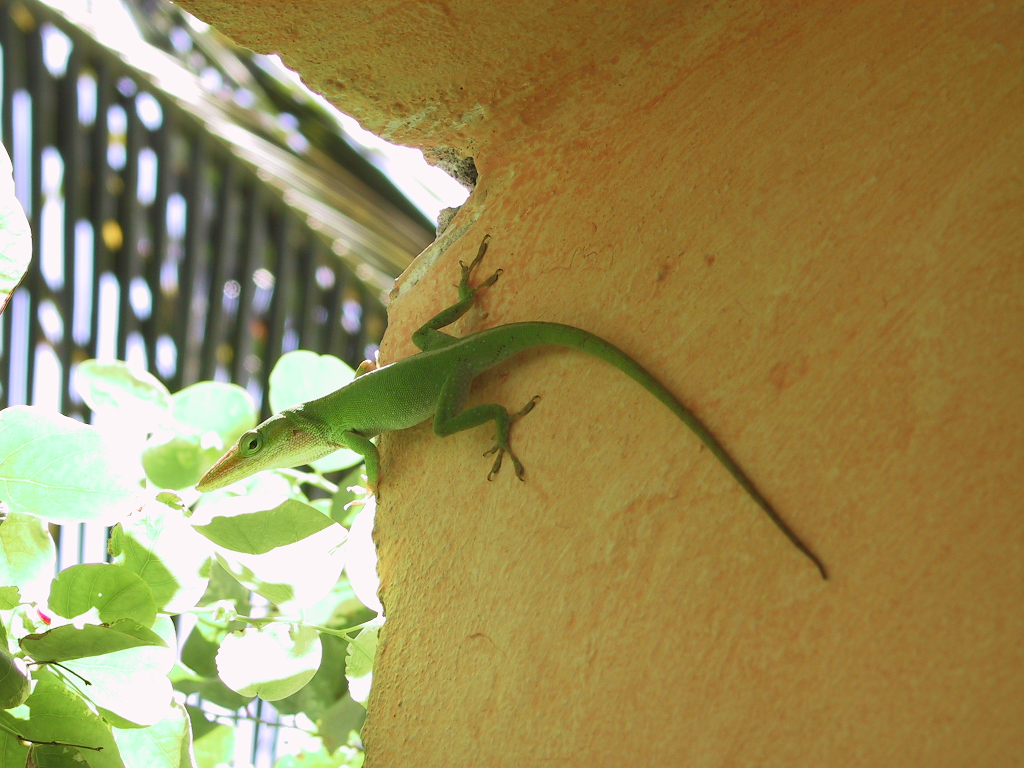 Description: Anolis porcatus, northwest of Cuba in a garden area. Source: self made Date: 2002-26-03 Author = Ruestz